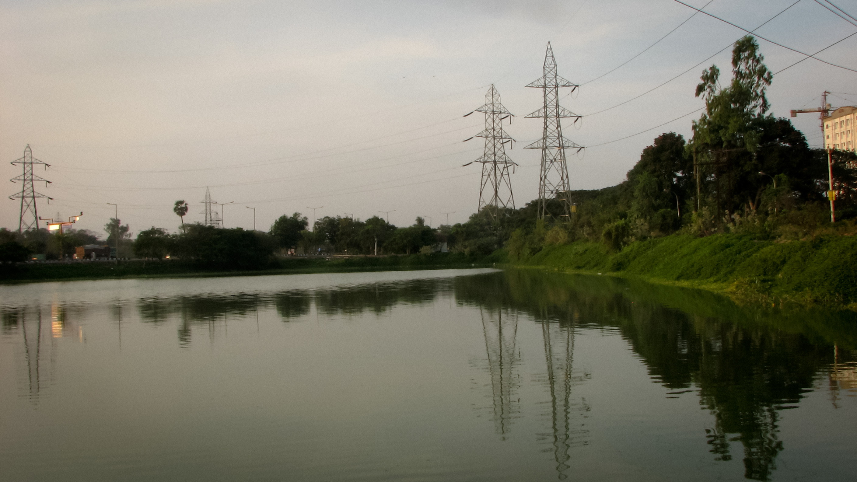 Potheri was a village in the Kancheepuram district where the primary occupation was agriculture. But as time passed, it's accessibility from Chennai and low real estate prices were responisble for rapid urbanization. The SRM Group of Institutions acquired close to 500 acres of the village and turned it into a bunch of Multistory buildings housing colleges and hospitals. Some might call this growth, but I call it the death of the village.